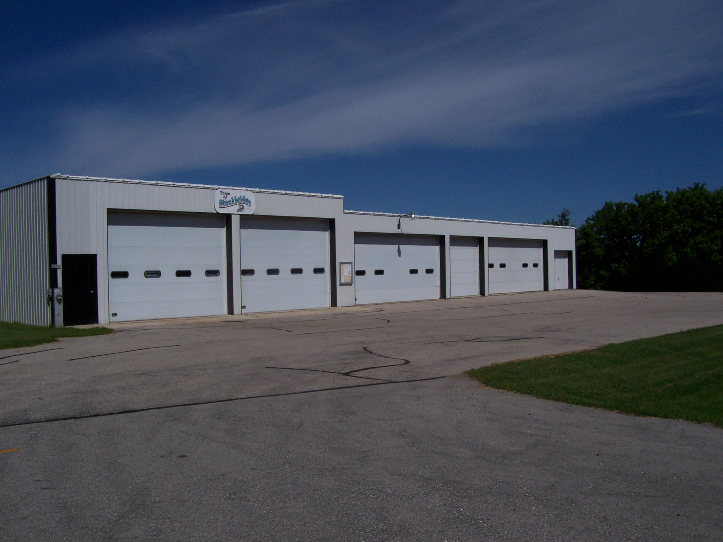 Looking west at the town hall for the Stockbridge (town), Wisconsin, USA in Calumet County, Wisconsin on Wisconsin Highway 55.